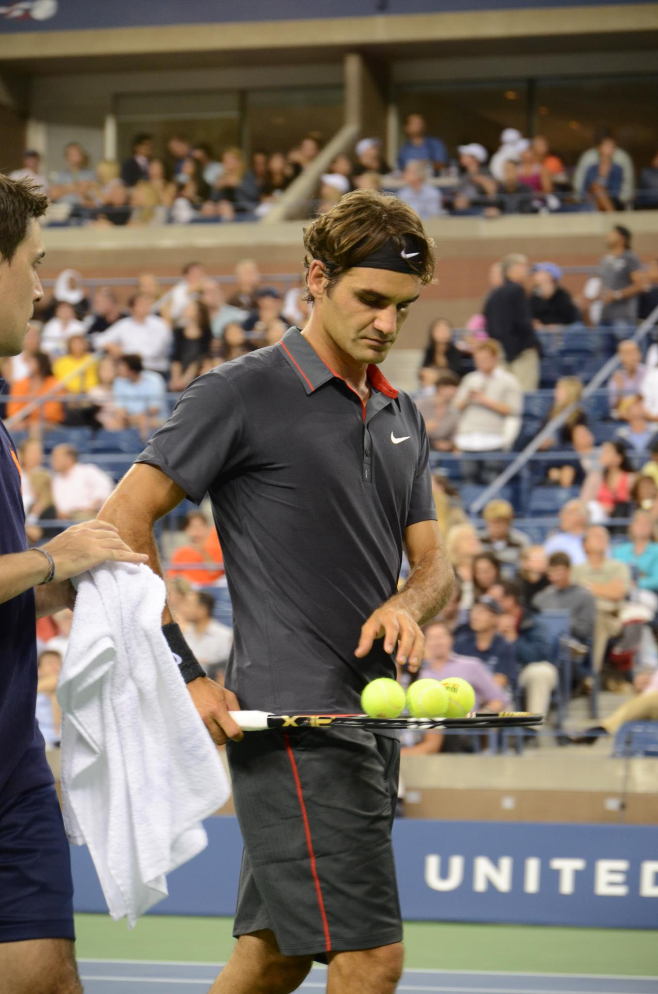 Roger Federer at the US Open 2011, 1st round